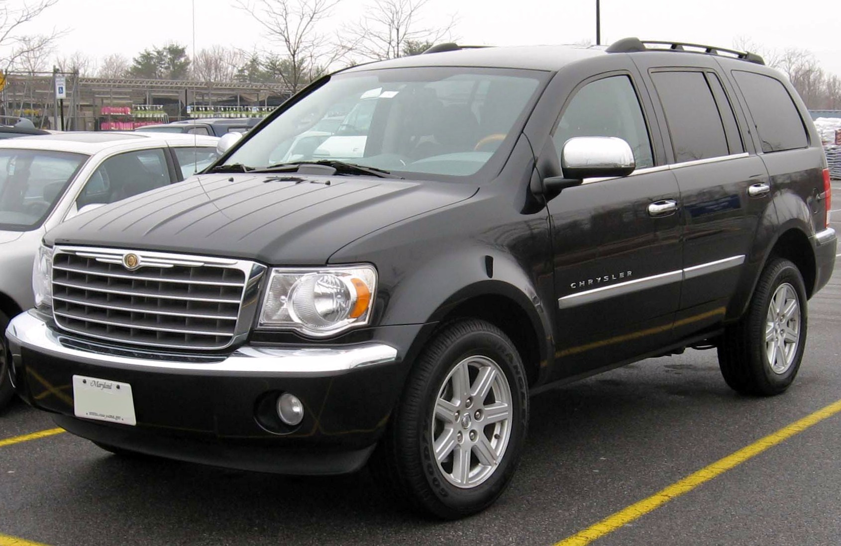 2007 Chrysler Aspen photographed in USA.